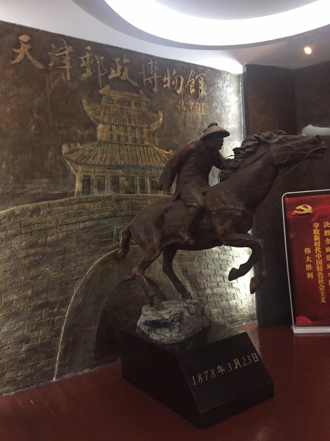 位于天津邮政博物馆序厅的清代邮差骑马送信的雕塑